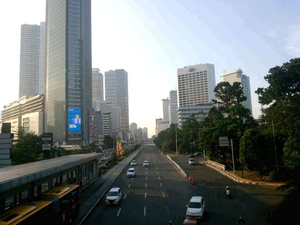 Thamrin Avenue at Hotel Indonesia roundabout, Jakarta